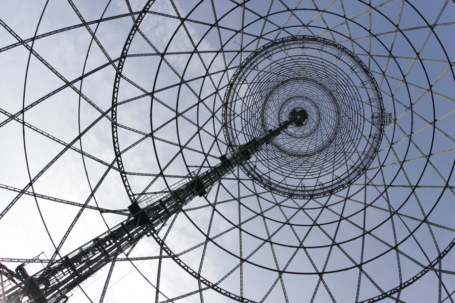 Shukhov Tower